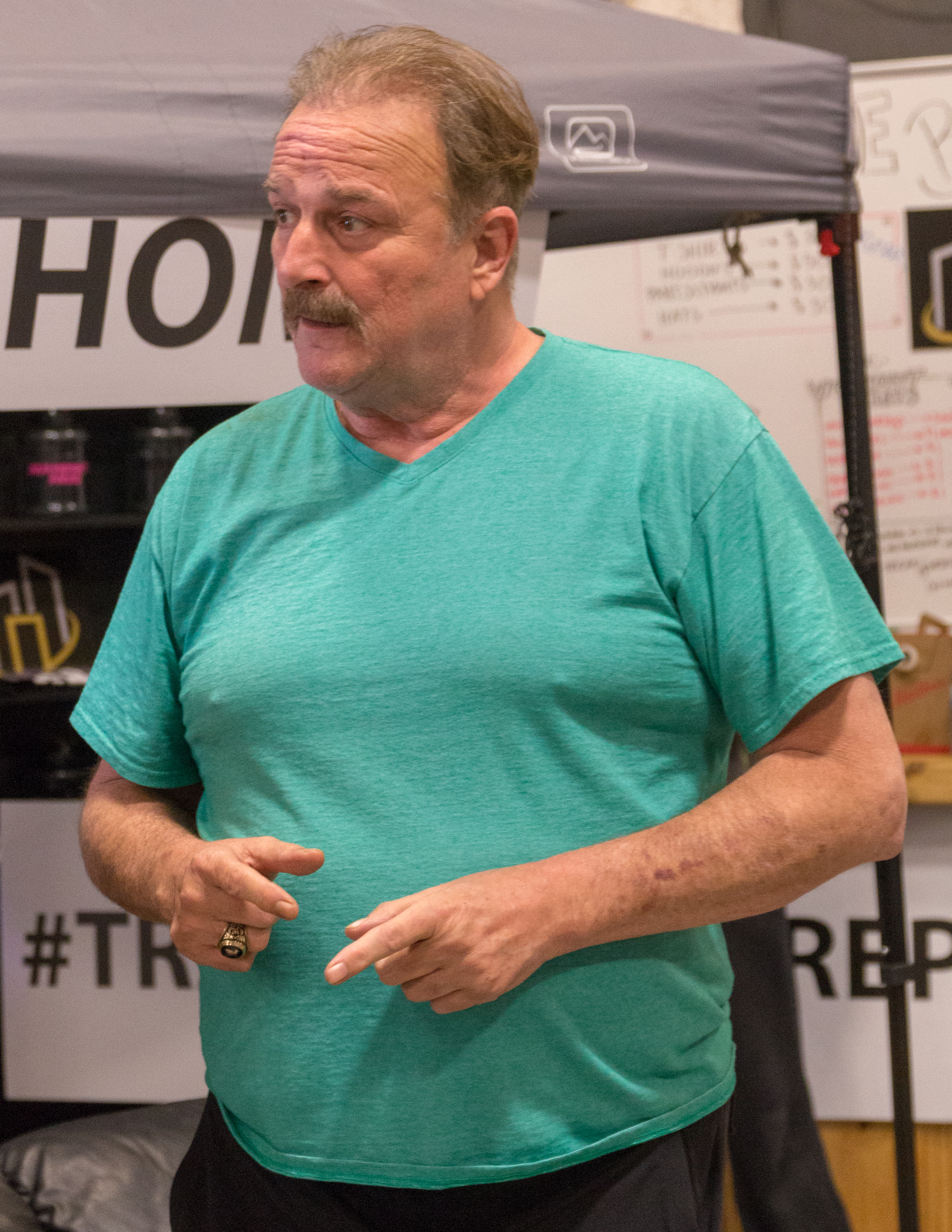 Professional wrestler Jake "The Snake" Roberts talking at a seminar held by the Cross Body Pro Wrestling Academy in Kitchener, ON